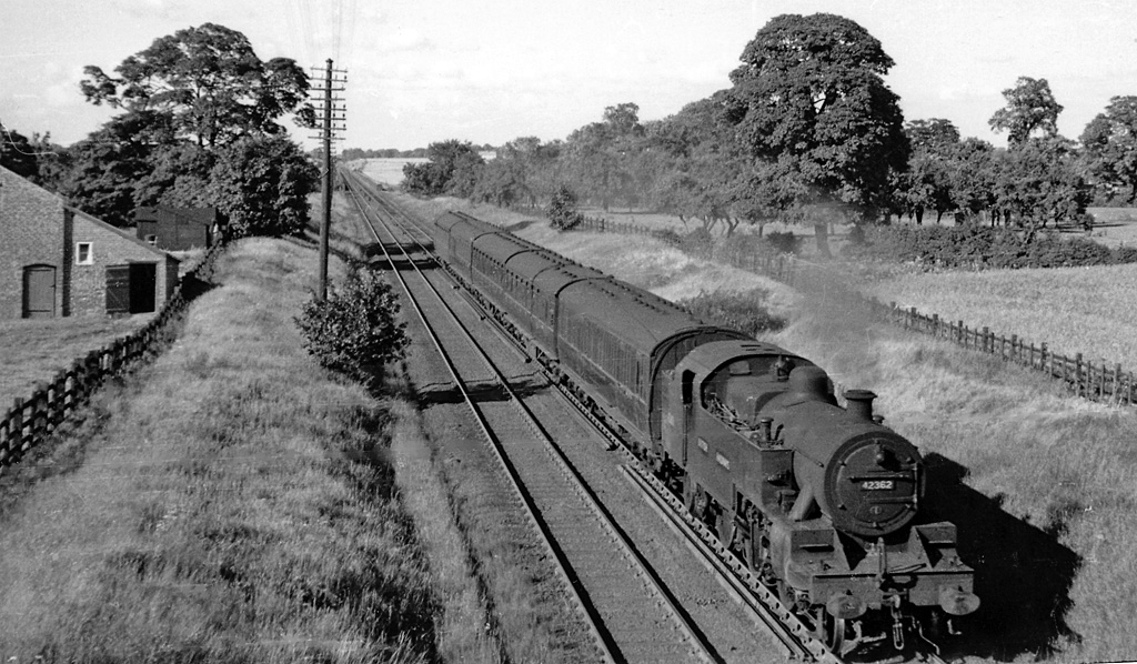 Up local train approaching Holmes Chapel station. View NE from the A535 bridge north of Holmes Chapel station, towards Stockport and Manchester; ex-London & North Western Manchester - Stockport - Crewe main line. The train is the 17.11 Manchester London Road to Crewe, headed by LMS Fowler 4P 2-6-4T No. 42392